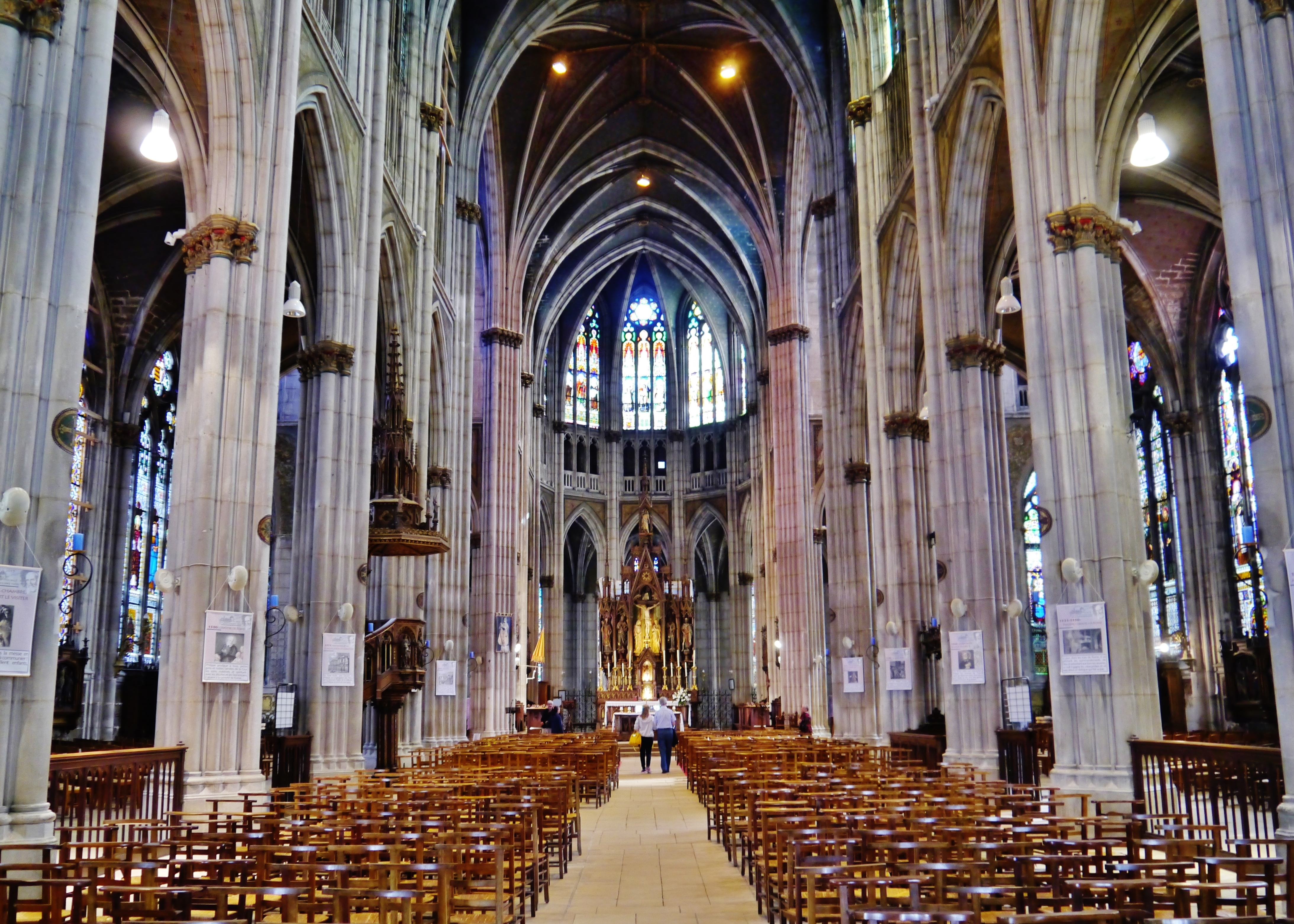 Nave of the Basilica St. Epvre, Nancy, Département of Meurthe-et-Moselle, Region of Lorraine (now Grand East), France